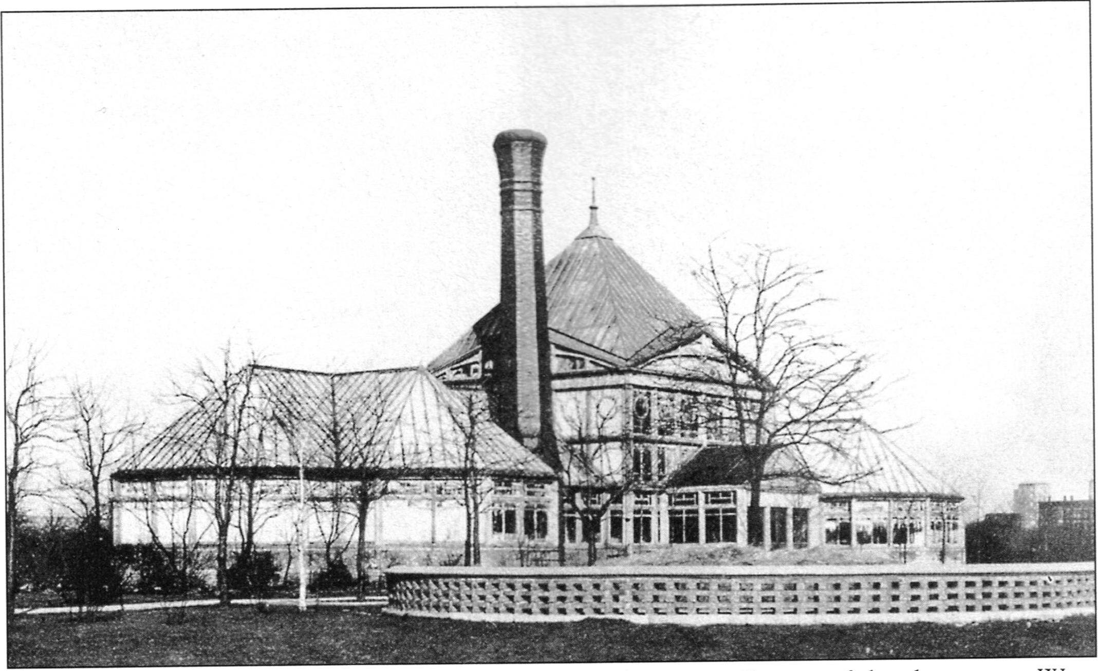 Former greenhouse in Douglas Park (destroyed 1905) — a botanical garden in the West Side district of Chicago, Illinois.